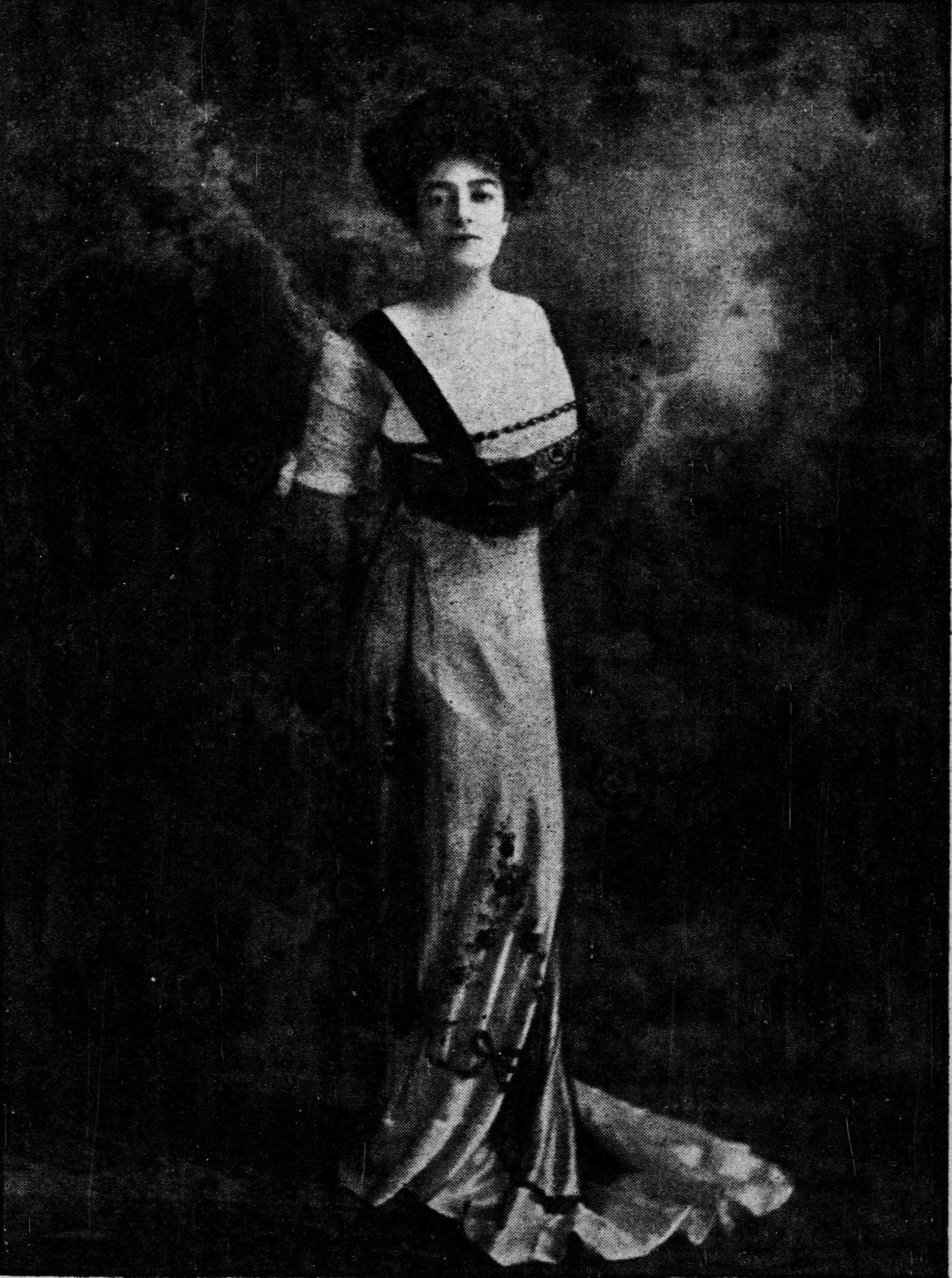 Princess Kawananakoa. Photo by Theodore C. Marceau.